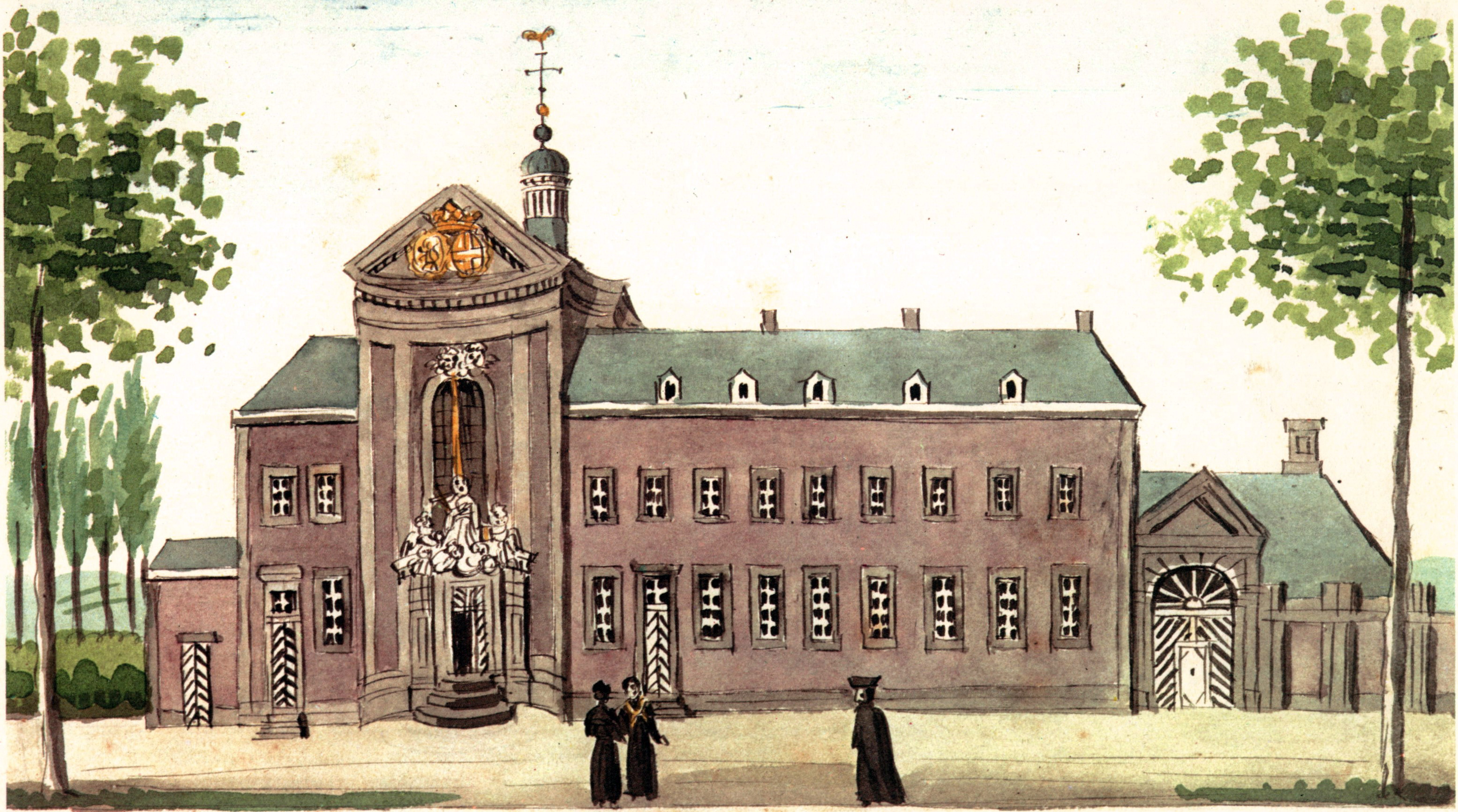 View of the Redemptorist Convent in Wittem, Limburg, the Netherlands. Drawing by Philippus van Gulpen (c 1840-60)